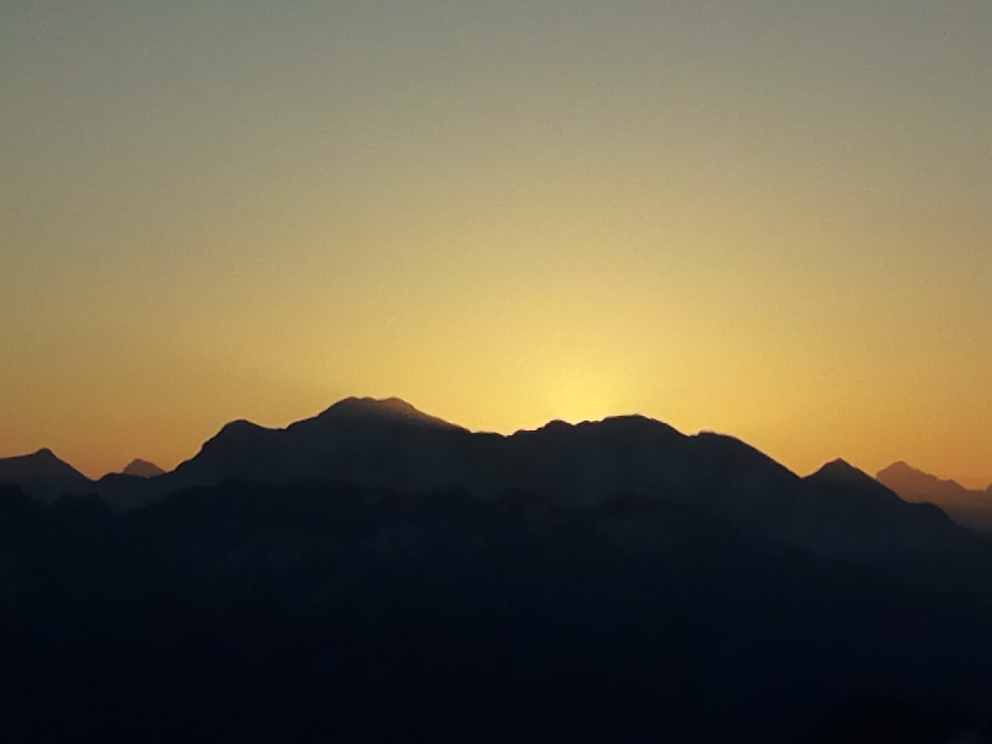 Sunrise Mte Canin form Mte Chiampon